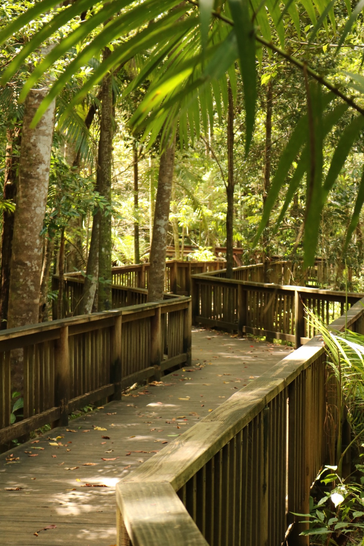 The boardwalk from Buderim waterfall to Harry's Hut restaurant